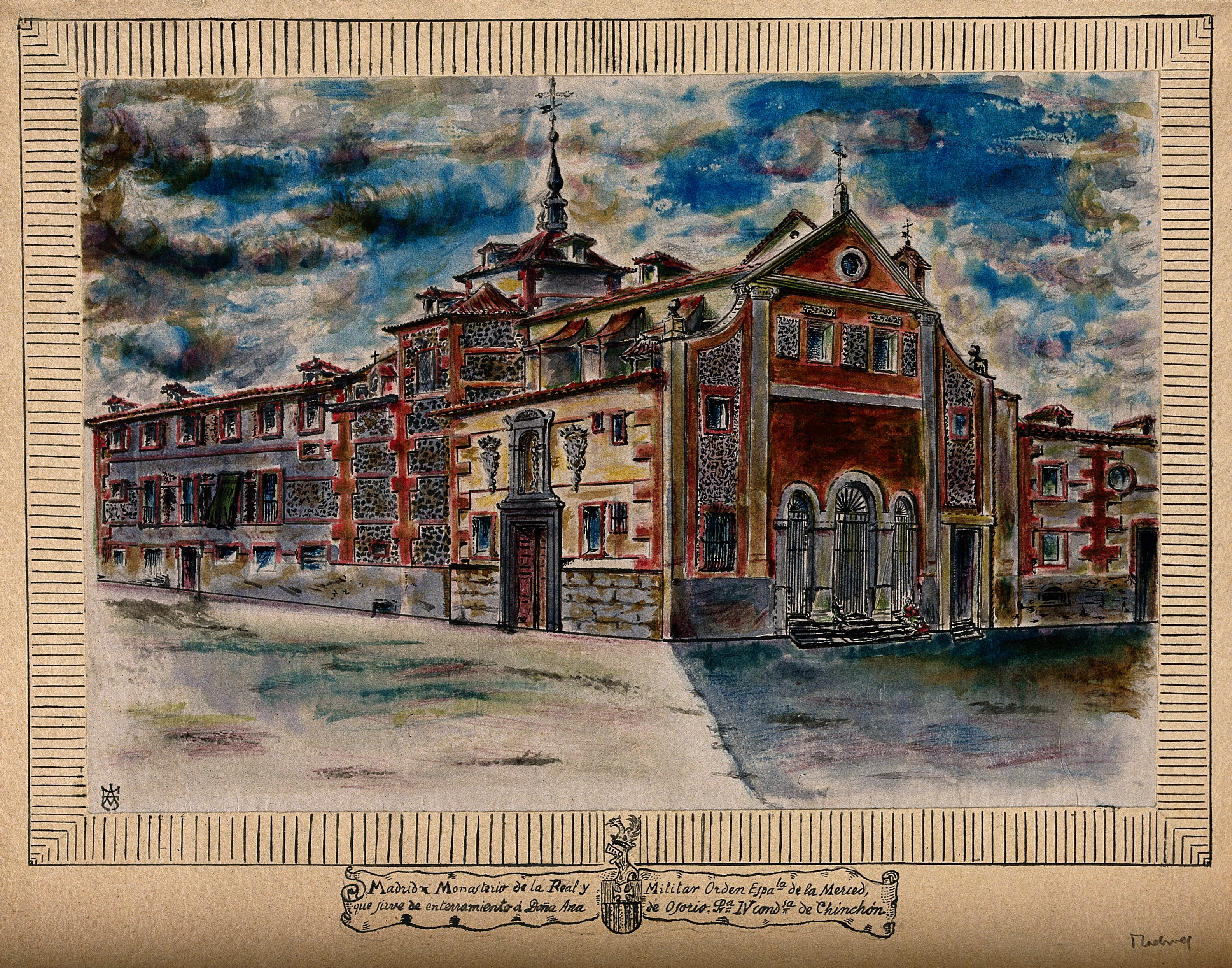 Monastery of the Royal Military Spanish Order of Mercy, Madrid, Spain: with coat of arms. Coloured pen and ink drawing. Iconographic Collections